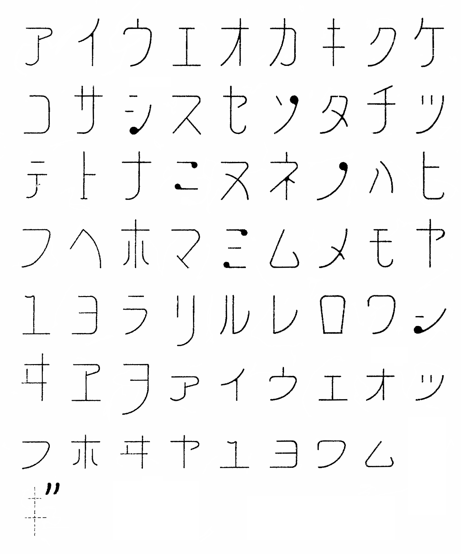 Japanese katakana font for Underwood typewriters, designed by Burnham Coos Stickney. In January 1923, Japanese businessman Yoshitaro Yamashita visited Underwood Typewriter Company, for which Stickney worked, in hope for Japanese katakana typewriters. Stickney agreed to his plan and designed a katakana typewriter having this font. U.S. Patent No. 1,549,622 was granted for its keyboard but not for the font.